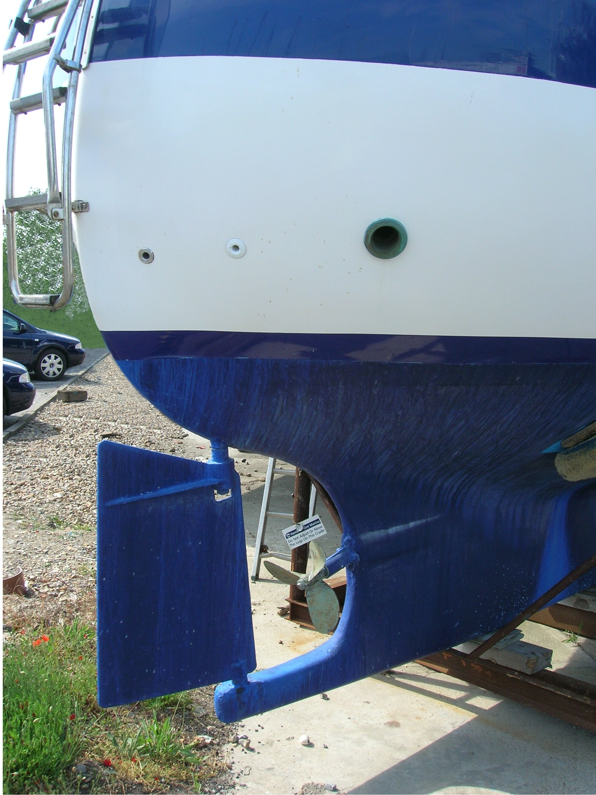 Rudder on an old sailboat.